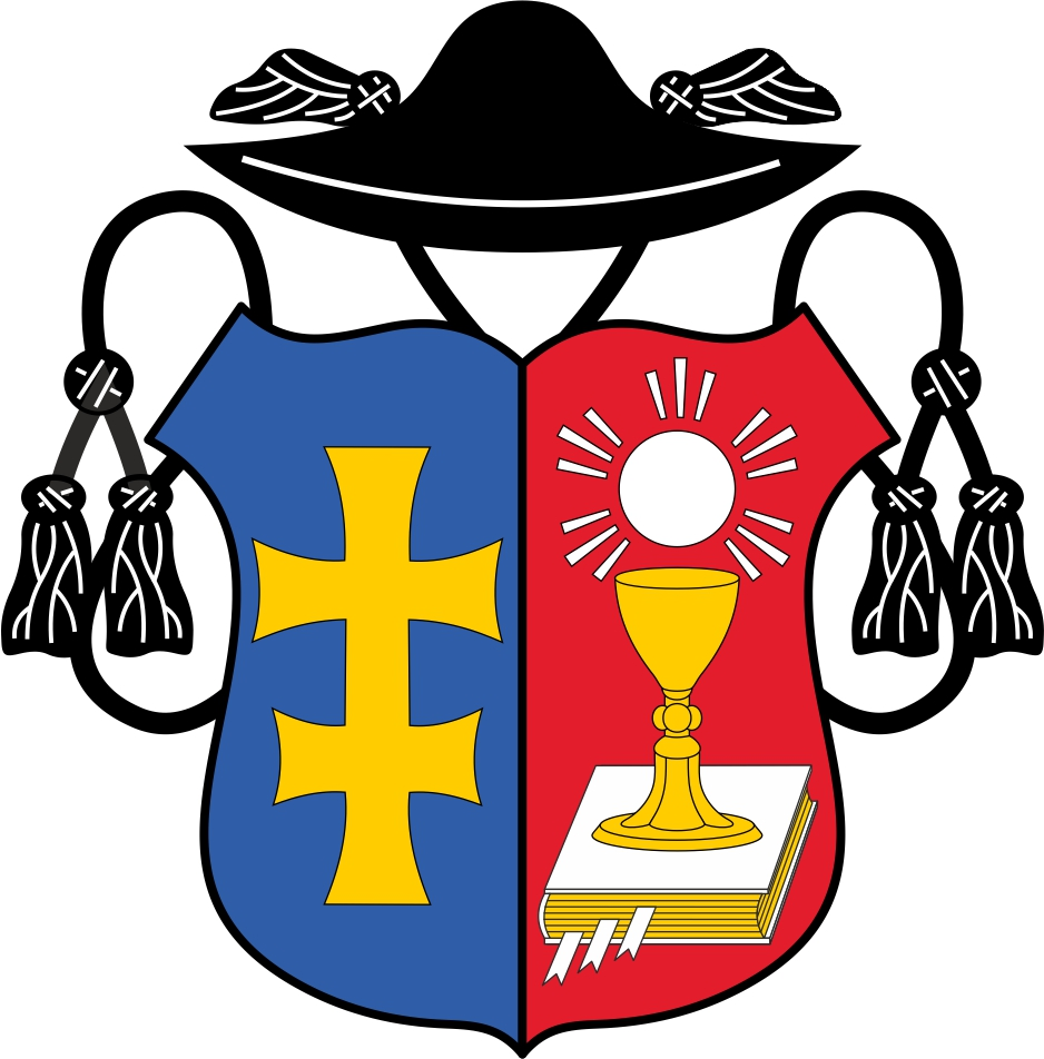 Deanery of Turzovka_coat of arms